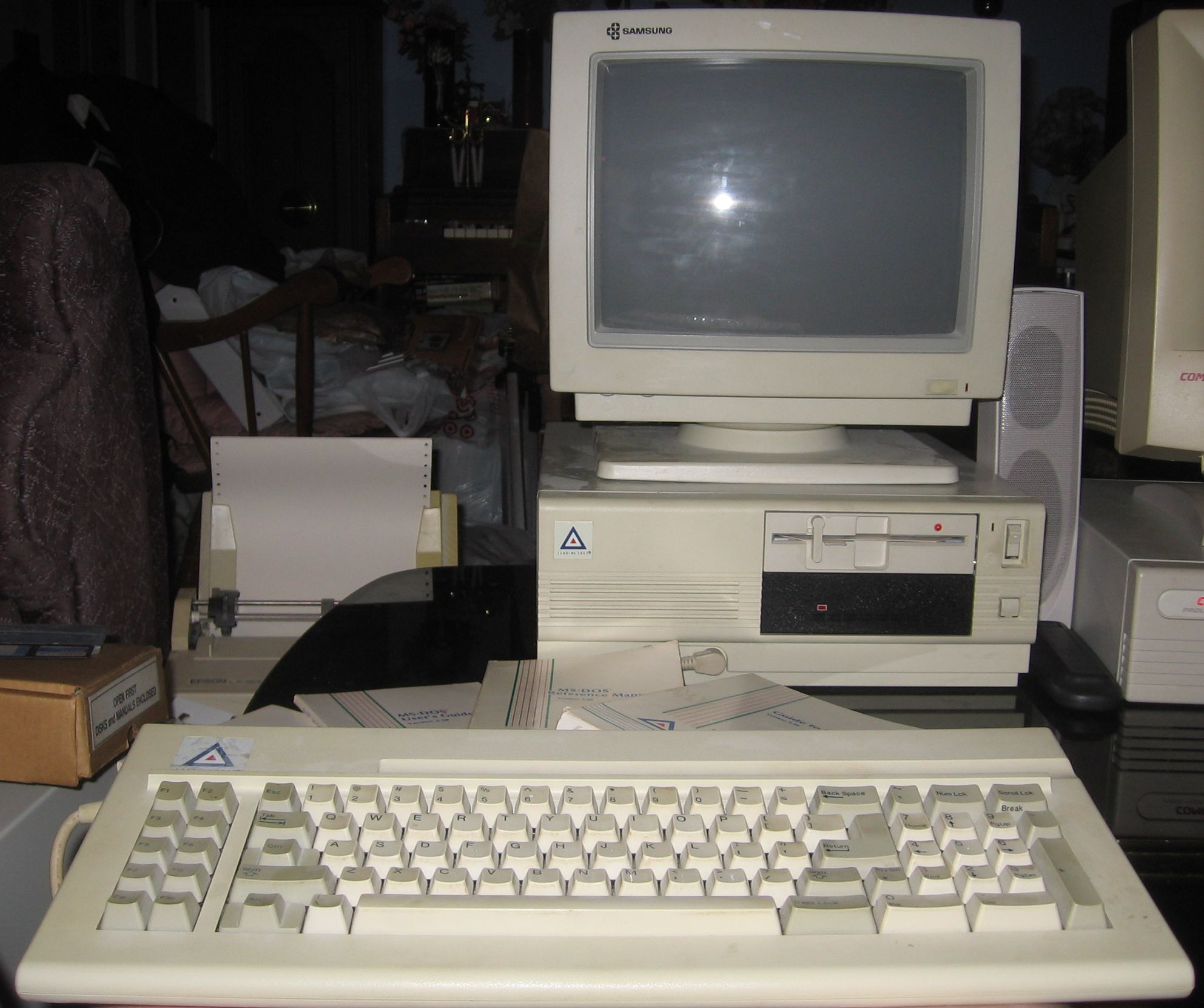 Picture of my Leading Edge Model D, an Intel 8088 IBM-compatible clone from January 1988, and its Samsung CGA monitor.